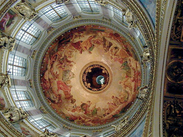 Inside of the dome of the St. Isaac Cathedrale in St. Petersburg